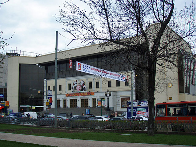 Moscow Сircus